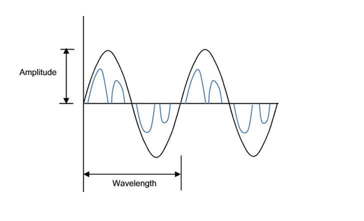 Single Phase Half Bridge fed to ASD